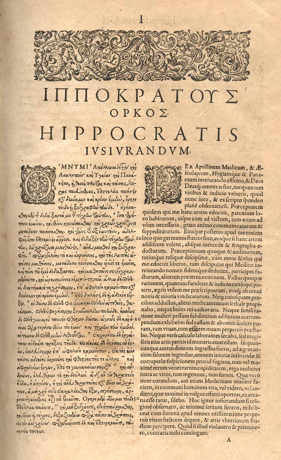 The Hippocratic Oath in Greek and Latin published in Frankfurt in 1595 in Apud Andreae Wecheli heredes by Claudium Marnium, & Ioan. Aubrium